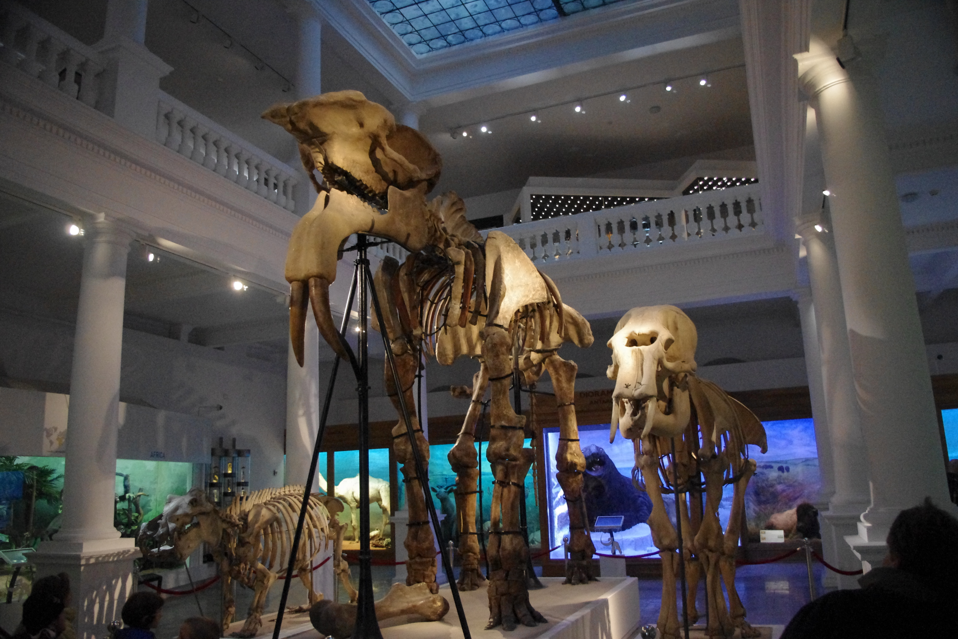 Picture of the world wide only intact skeleton a "Deinotherium Gigantissimum" at the Museum of natural history Grigore Antipa in Bucharest Romania. (Muzeul Naţional de Istorie Naturală “Grigore Antipa”)